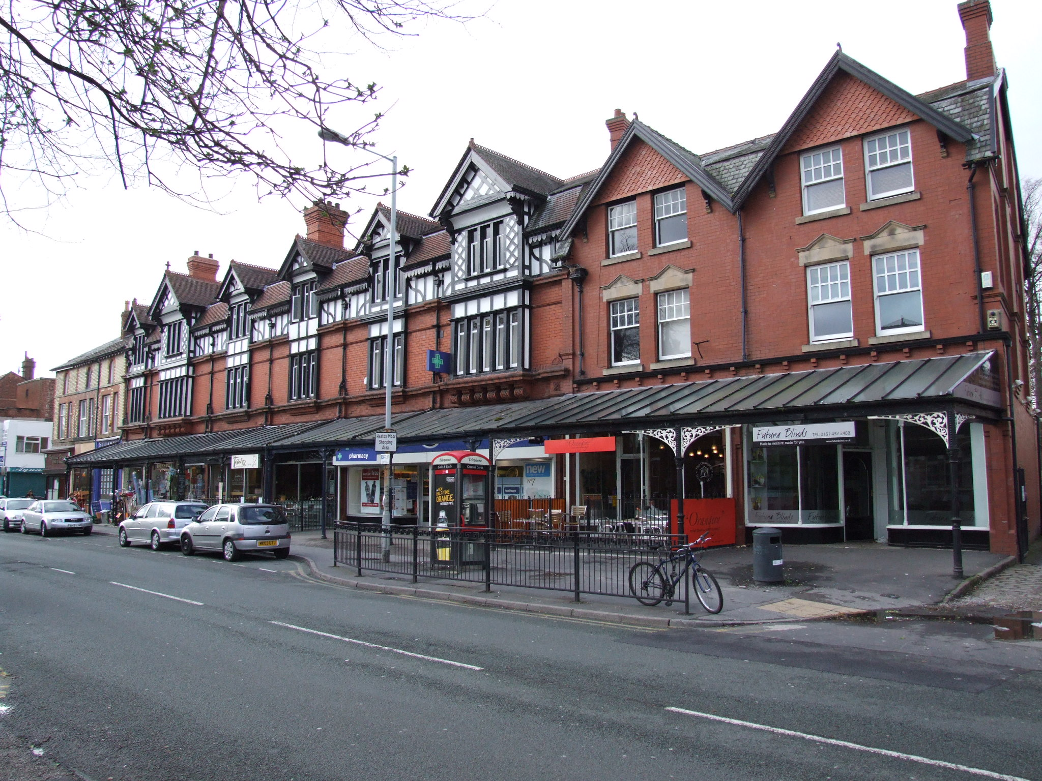 Heaton Moor is situated in Stockport, in the direction of Manchester. It is a railway suburb, served by Heaton Chapel railway station. The railway runs parallel to the A6, and the moor is on the other side of the railway... . Shops with ornate wrought iron and glass canopies.